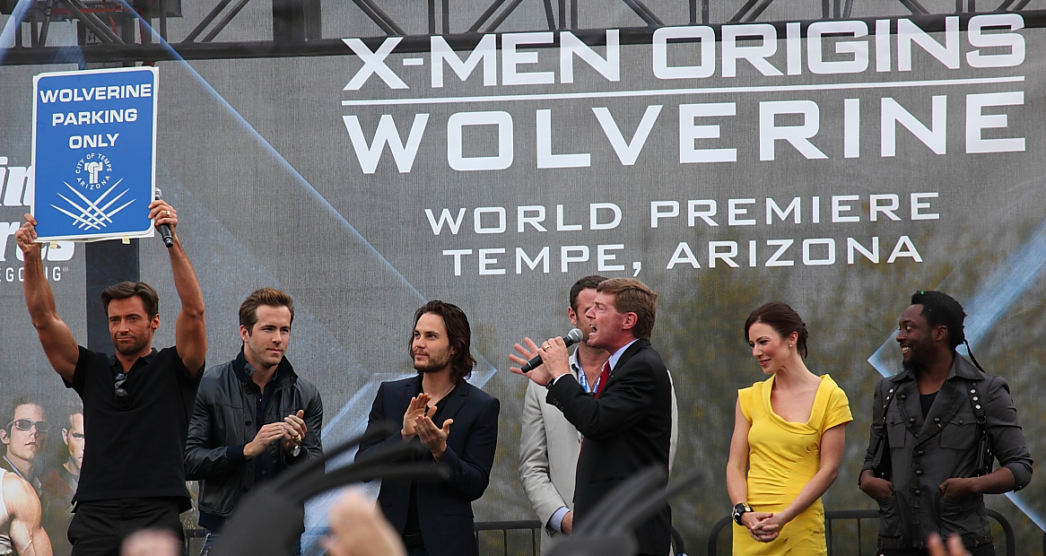 From left to right on stage: Hugh Jackman, Ryan Reynolds, Taylor Kitsch, Liev Schreiber (hidden), Tempe mayor Hugh Hallman, Lynn Collins, and will.i.am at the X-Men Origins: Wolverine premiere in Tempe, Arizona.